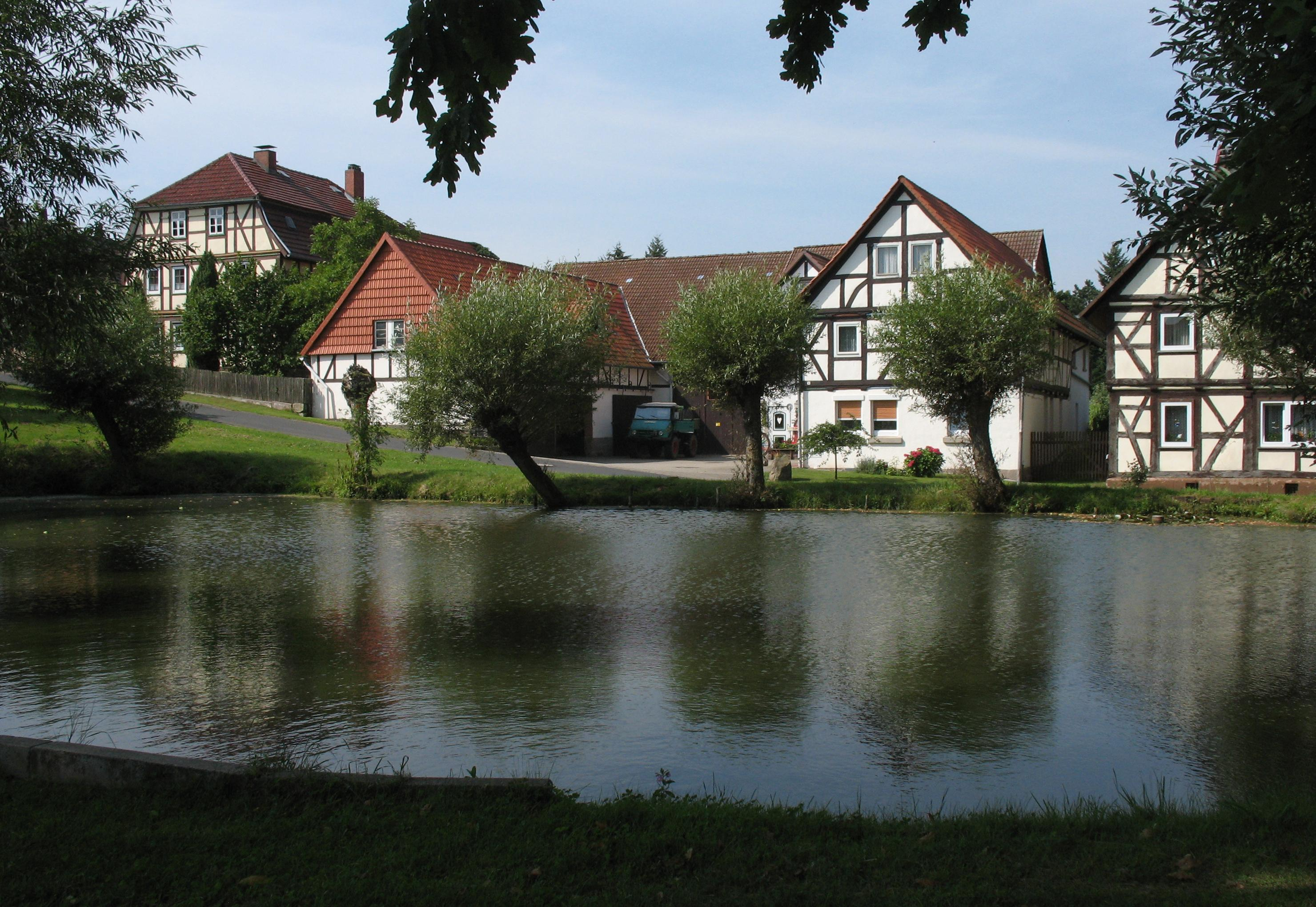 Pond in Friedland-Lichtenhagen in Lower Saxony, Germany